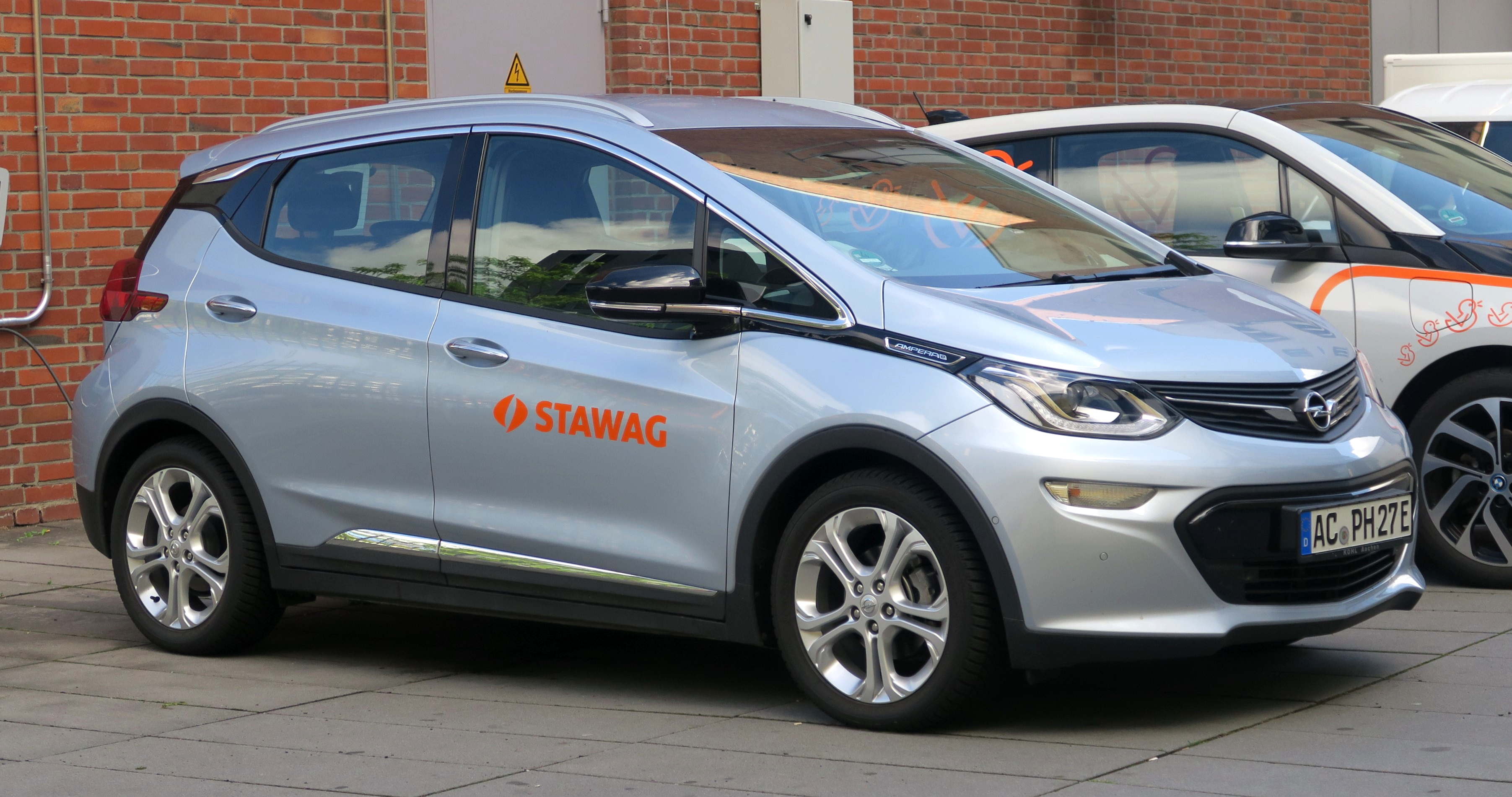 Opel Ampera-e at a charge point and next to an electric BMW in Aachen